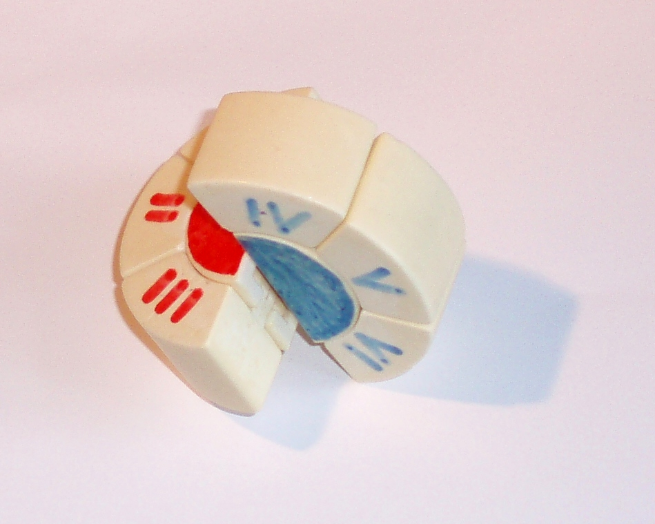 The Puck (Hungarian: Kép korong, Bűvös korong) is a combination puzzle. The outer ring can be rotated around the central disc. The two parts of the central disc can also be rotated, together with the attached ring.